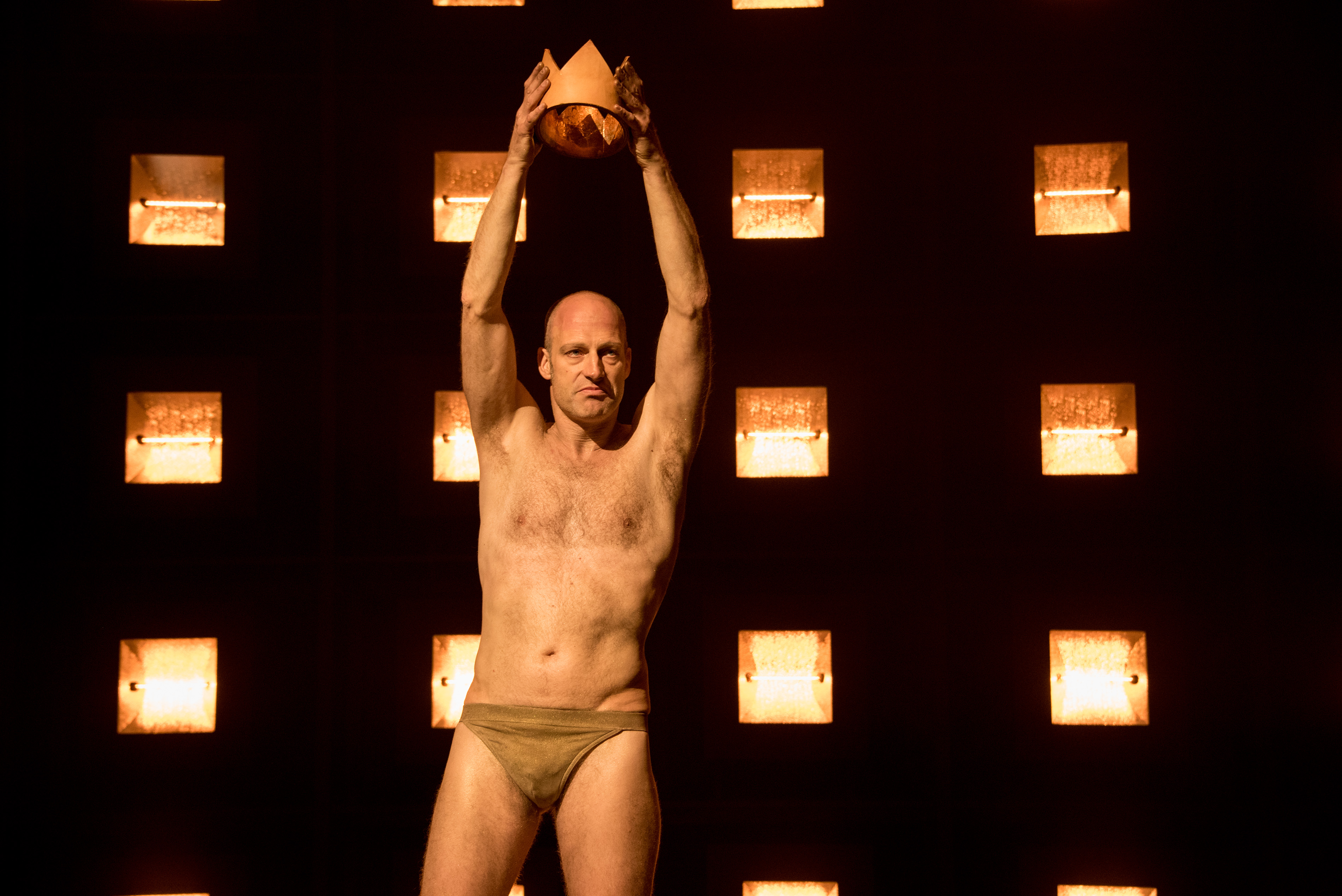 Joachim Meyerhoff, Antigone, Burgtheater Wien, 2015